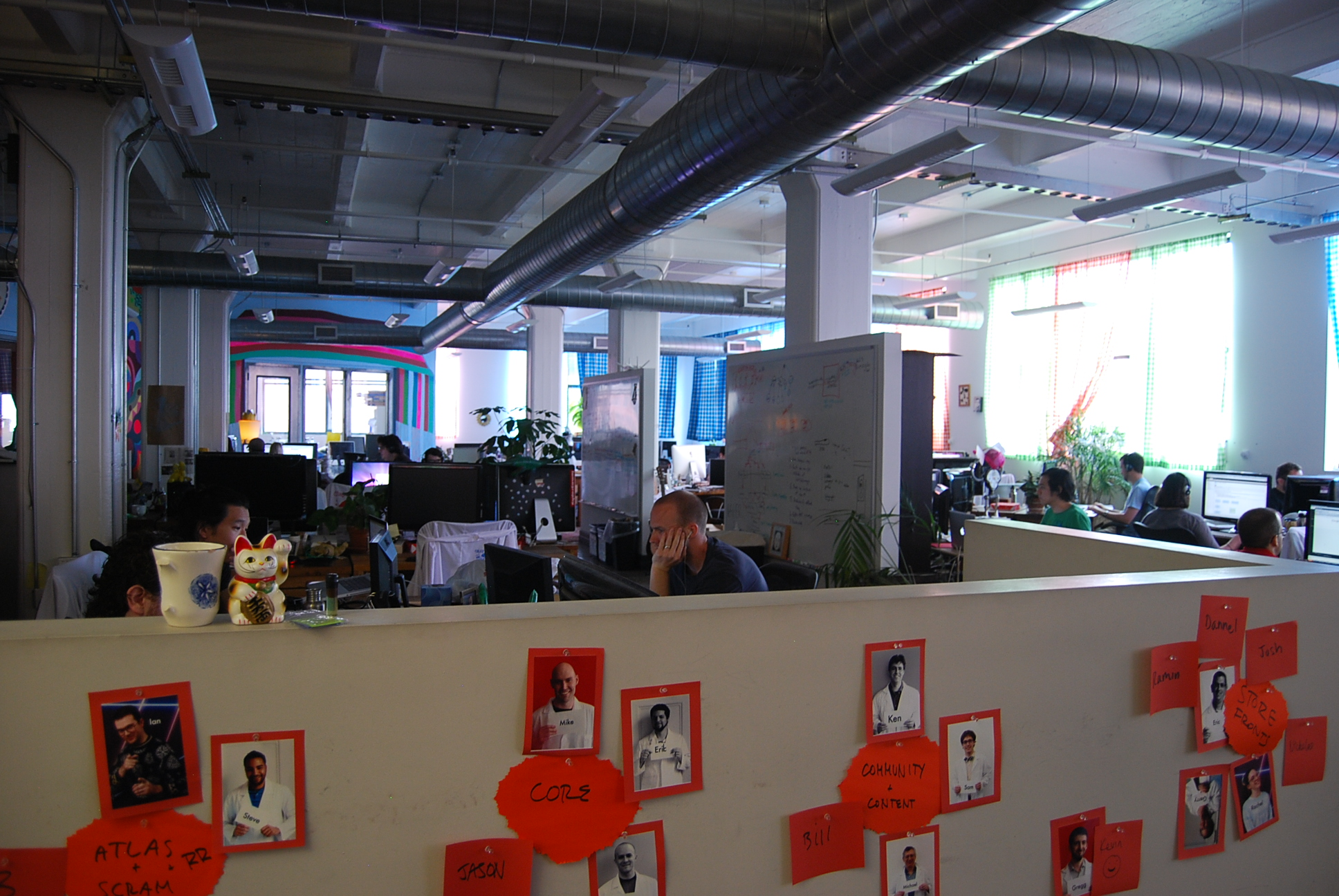 Etsy engineers and customer service at work